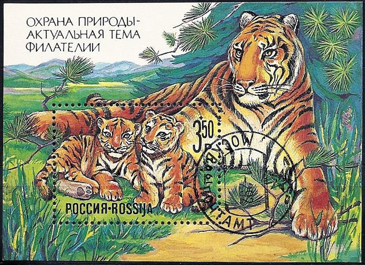 A Russia stamp. Protection of nature - vital topic in philately, 1992